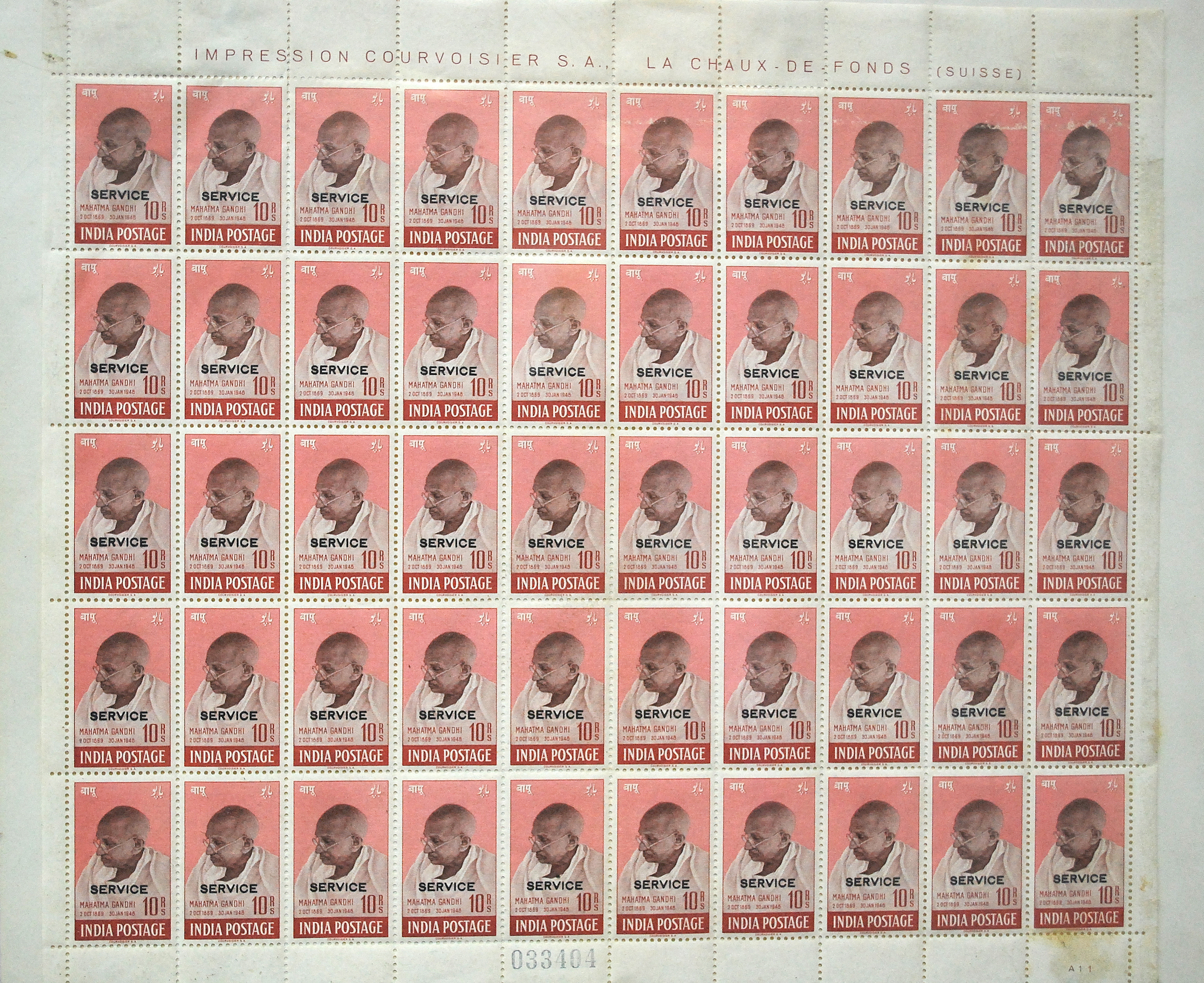 The normal un-overprinted stamp was issued in 1948 after the assassination of Mahatma Gandhi. One sheet of 100 stamps were overprinted with the Service overprint of which this is a pane of 50 stamps. See India 10 Rupees Mahatma Gandhi postage stamp for details.